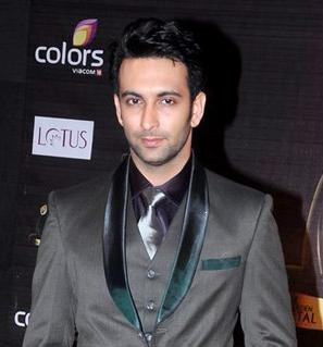 Nandish Singh Sandhu